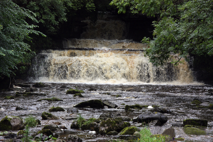 Cotter Force Water fall in Yorkshire on the Cotter Beck, a tributary of the River Ure.